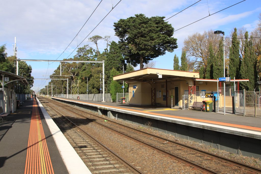 Looking towards the city from platform 1 at Fawkner railway station, Melbourne